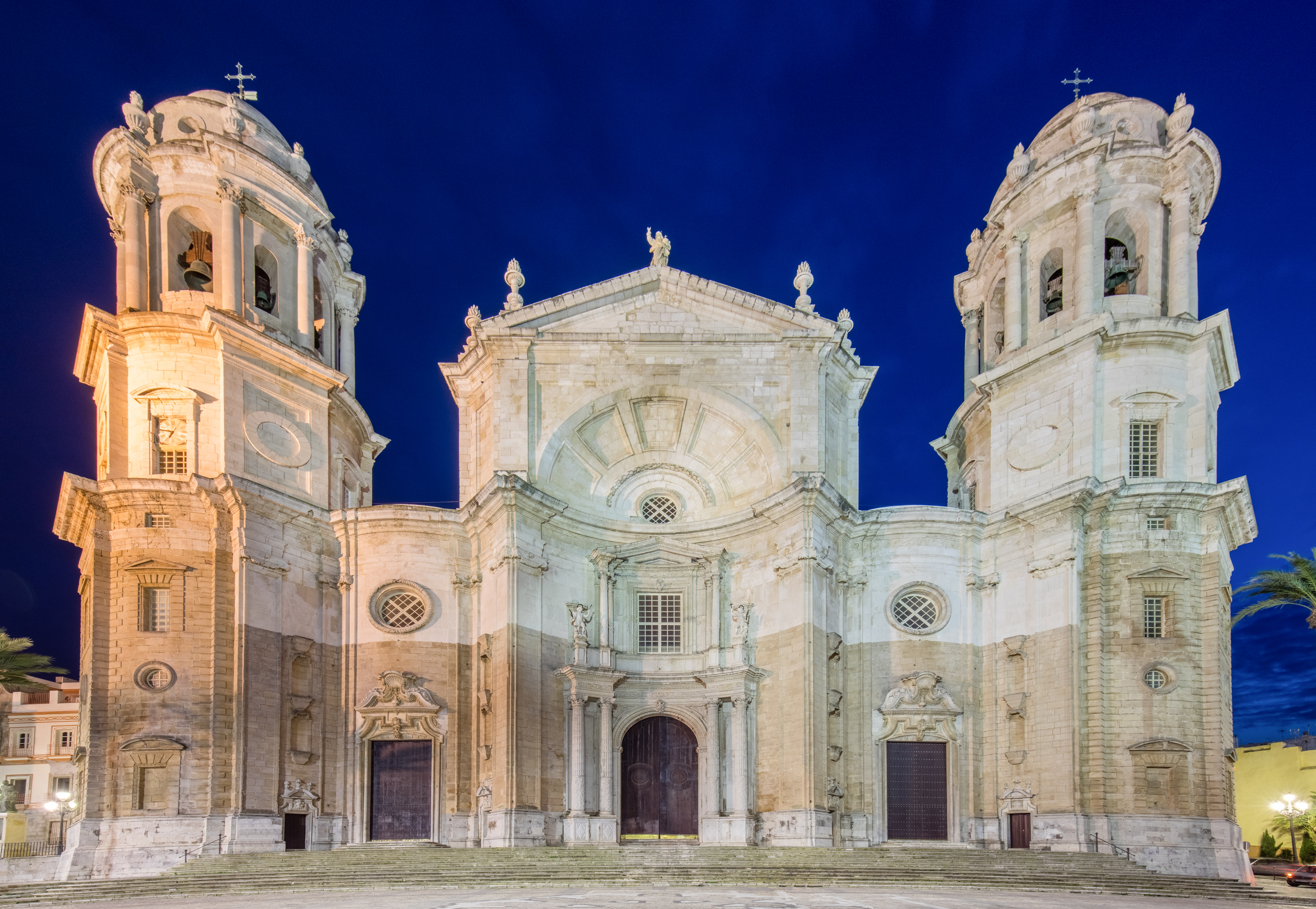 Cathedral, Cádiz, Spain. Cádiz Cathedral Native nameCatedral de la Santa Cruz de CádizLocationCádiz, (Spain)Coordinates36° 31′ 44.4″ N, 6° 17′ 42.72″ W EstablishedMiddle AgeWeb page control : Q650007 VIAF: 130842907 LCCN: n93109697 BIC: RI-51-0000493 GND: 4659648-3 BNE: XX86252 WorldCat institution QS:P195,Q650007